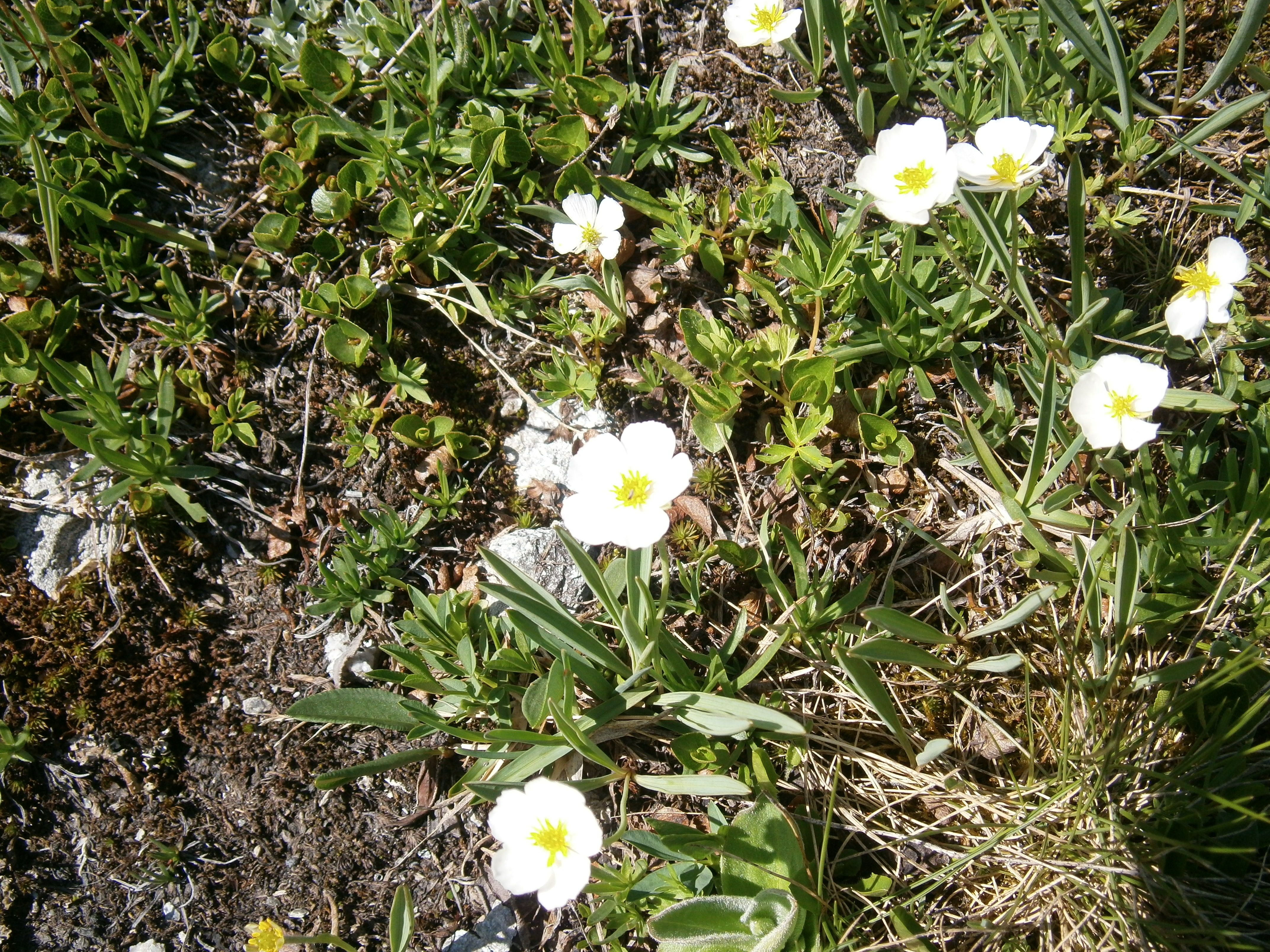 Ranunculus kuepferi